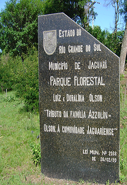 Azzolin Olson Florestal Park